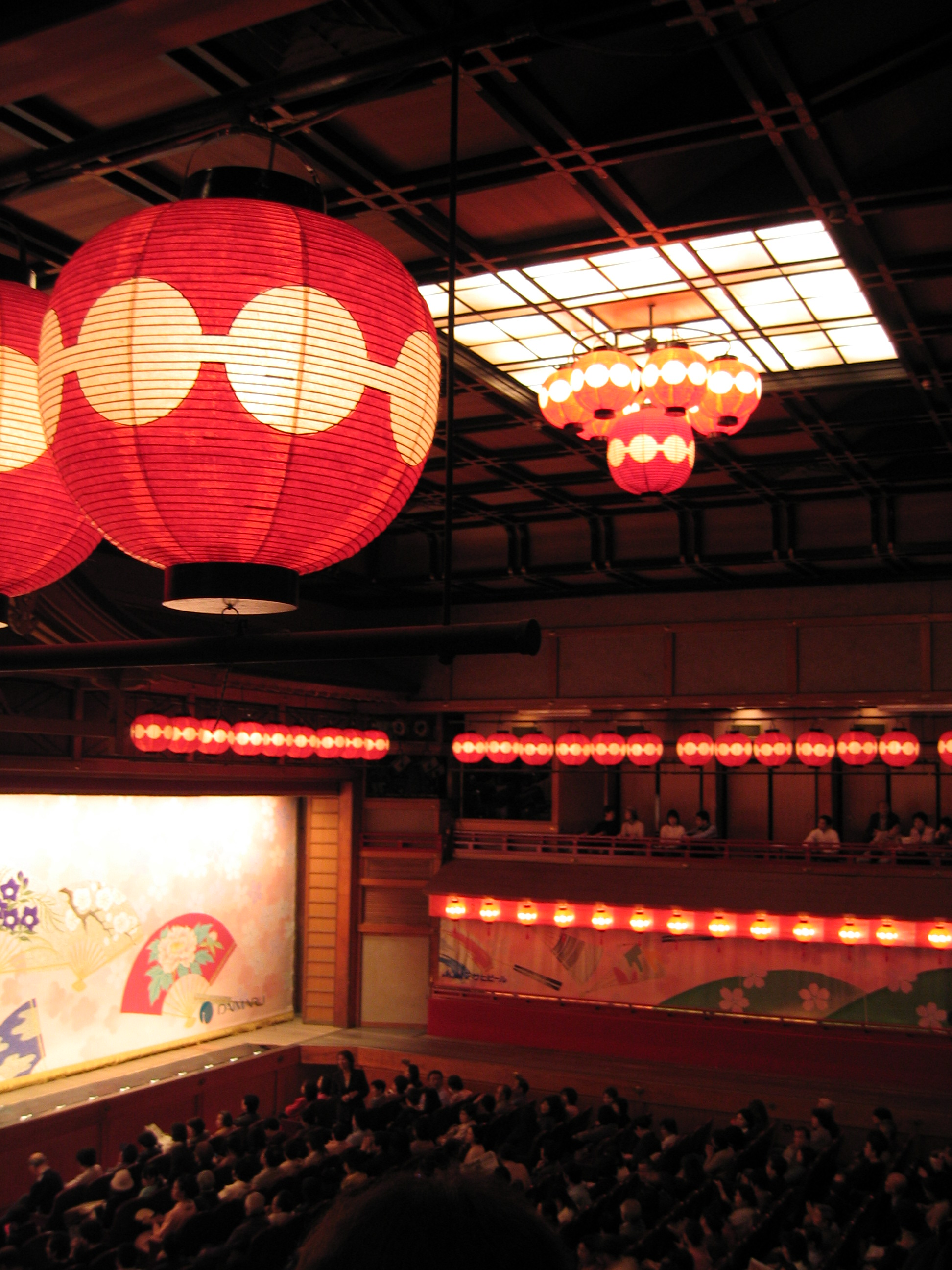 Cherry dance in Kyoto, Miyako Odori（都をどり）